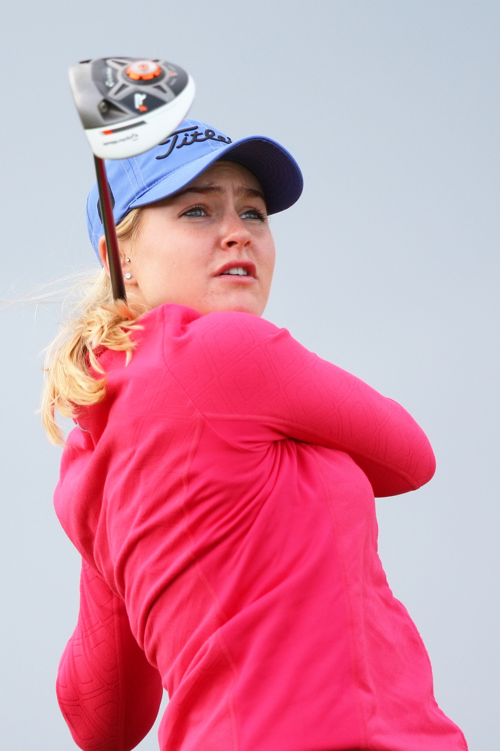 ST ANDREWS, SCOTLAND – JULY 30: Charley Hull of England watches her tee shot on 15th hole during pro-am round of 2013 Ricoh Women's British Open held at St Andrews Old Course on July 30, 2013 in St Andrews, Scotland. (Photo by Wojciech Migda)